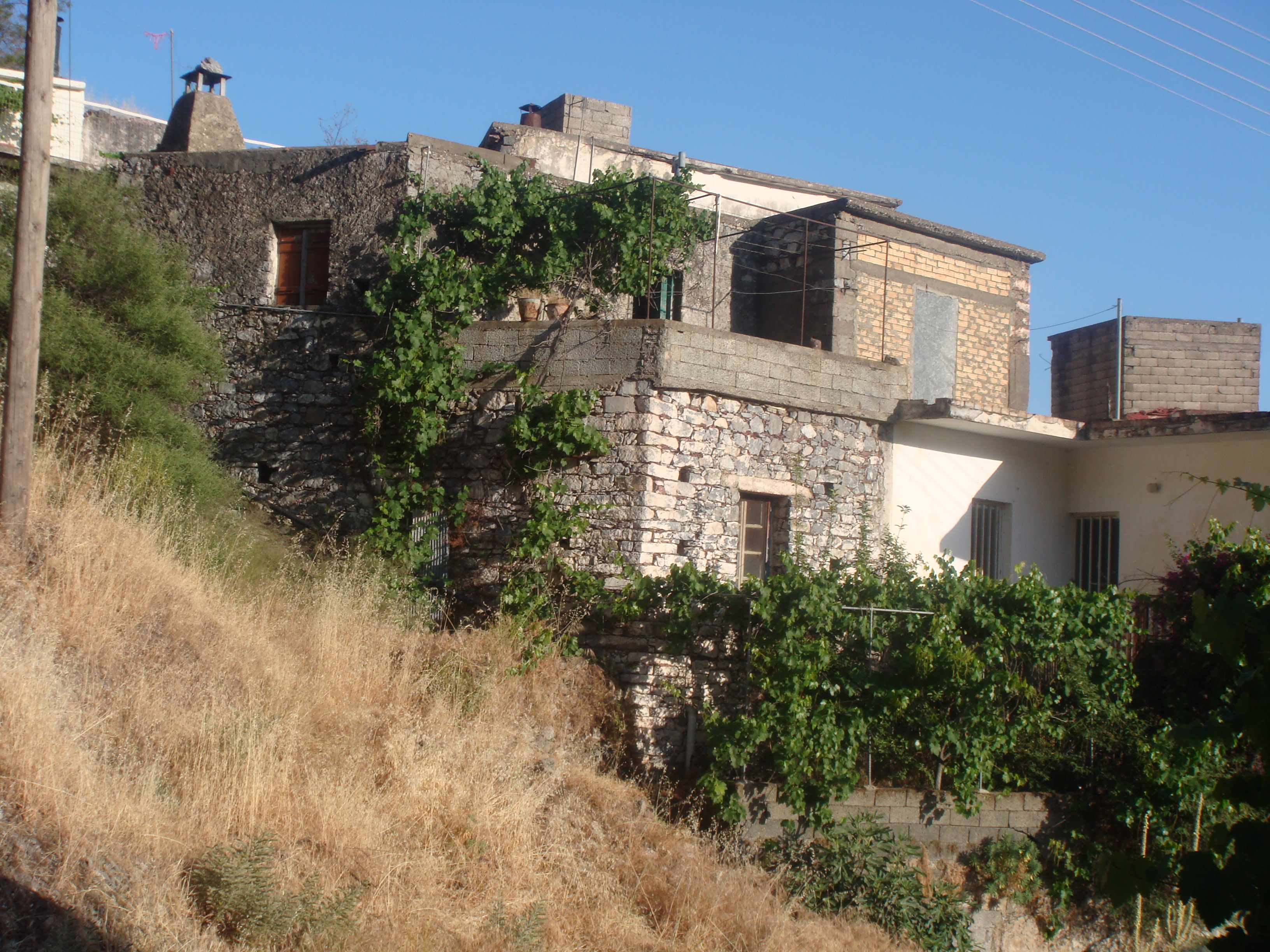 A view from Kalami, in Iraklion prefecture.